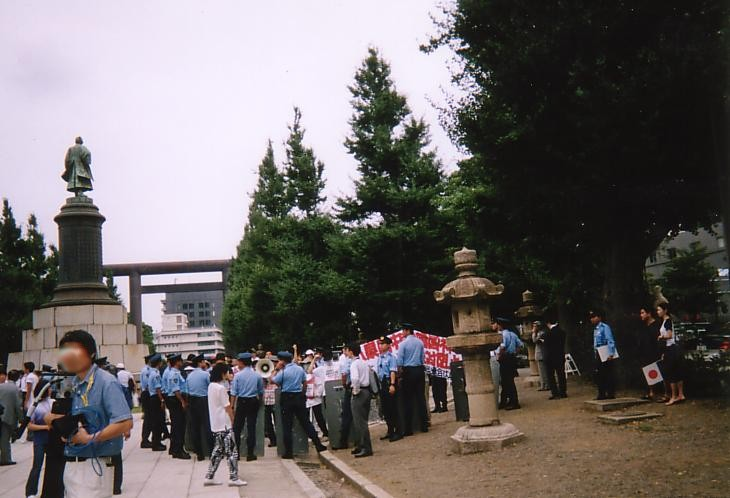 Japanese ultra-left activists at Yasukuni Shrine